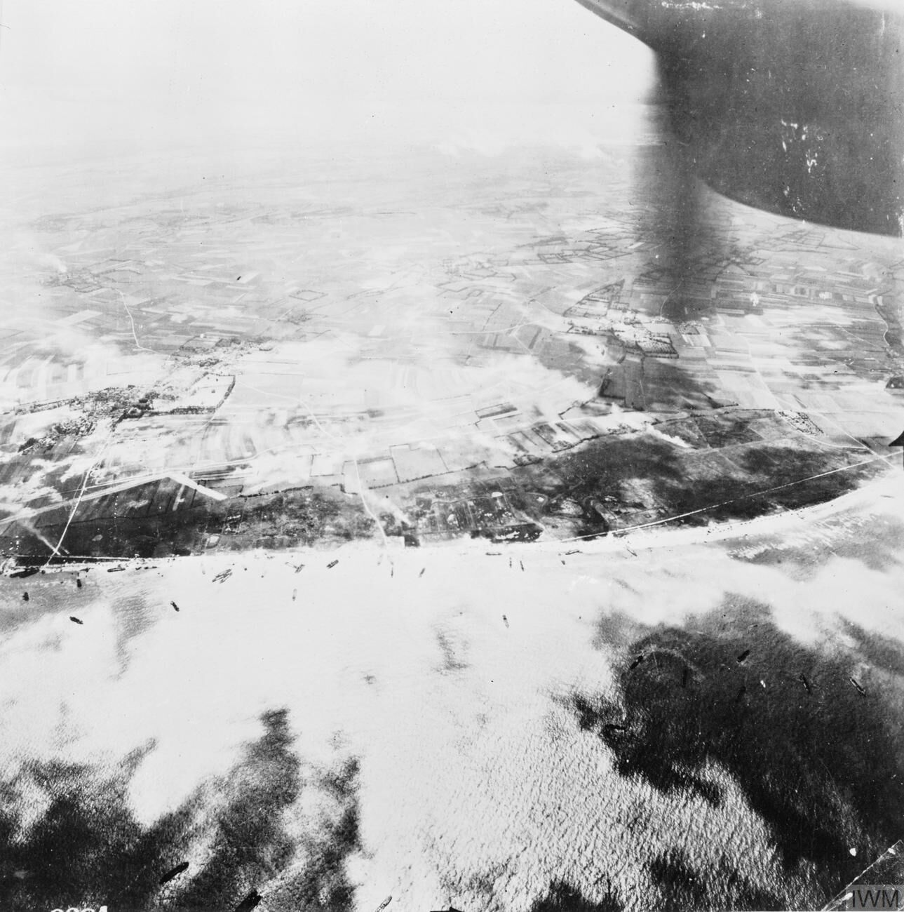 Oblique aerial of 'King Green' and 'Jig' Beaches GOLD Area between Mont Fleury and le Hamel, during the landing of 50th (Northumbrian) Division, 6 June 1944.